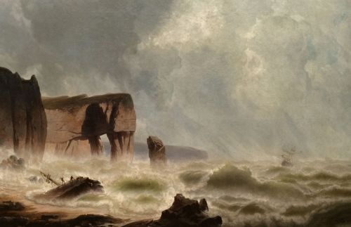 The Cliffs in Helgoland